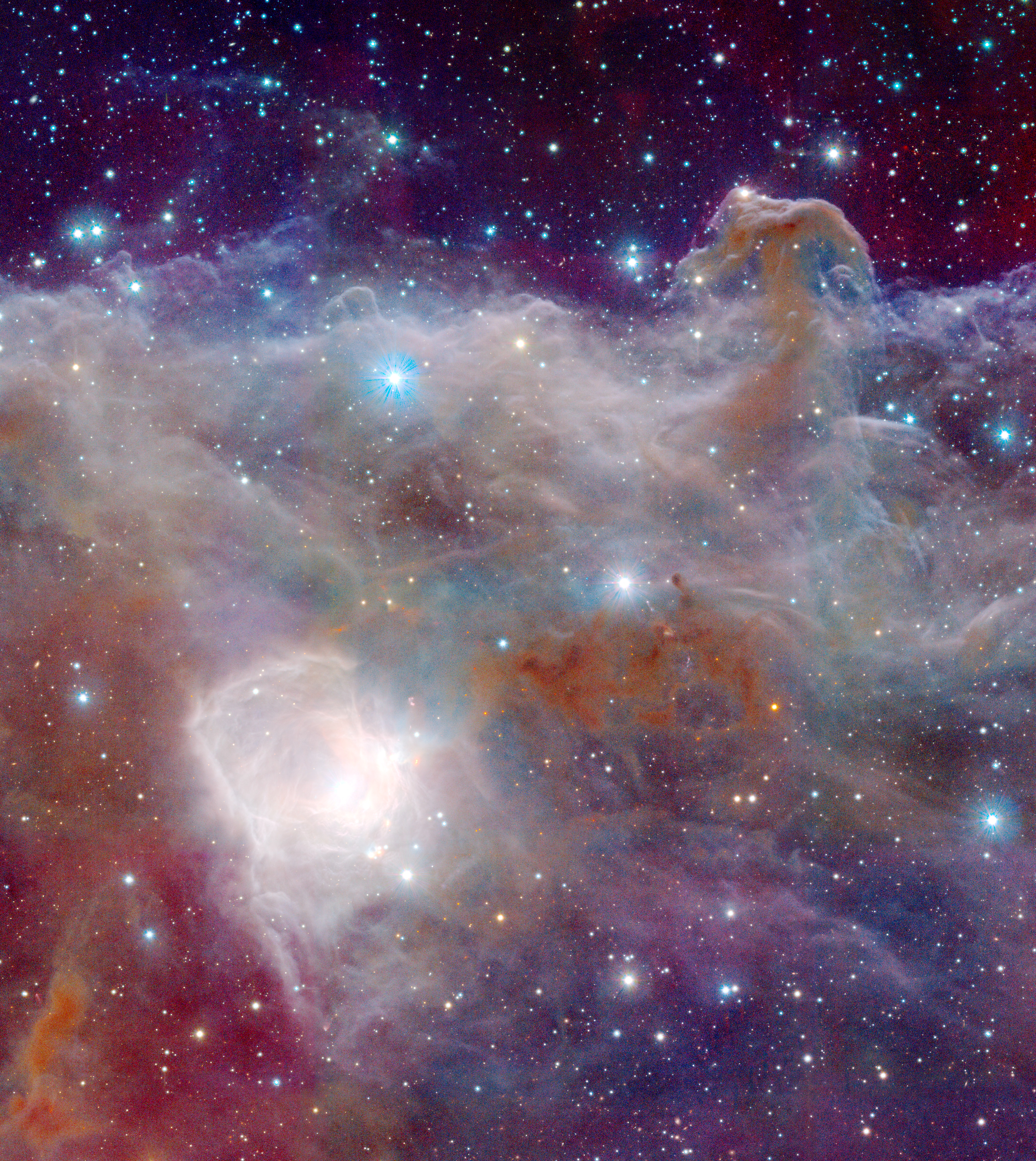 The wide-field VISTA view includes the glow of the reflection nebula NGC 2023, just below centre, and the ghostly outline of the Horsehead Nebula (Barnard 33) towards the lower right.